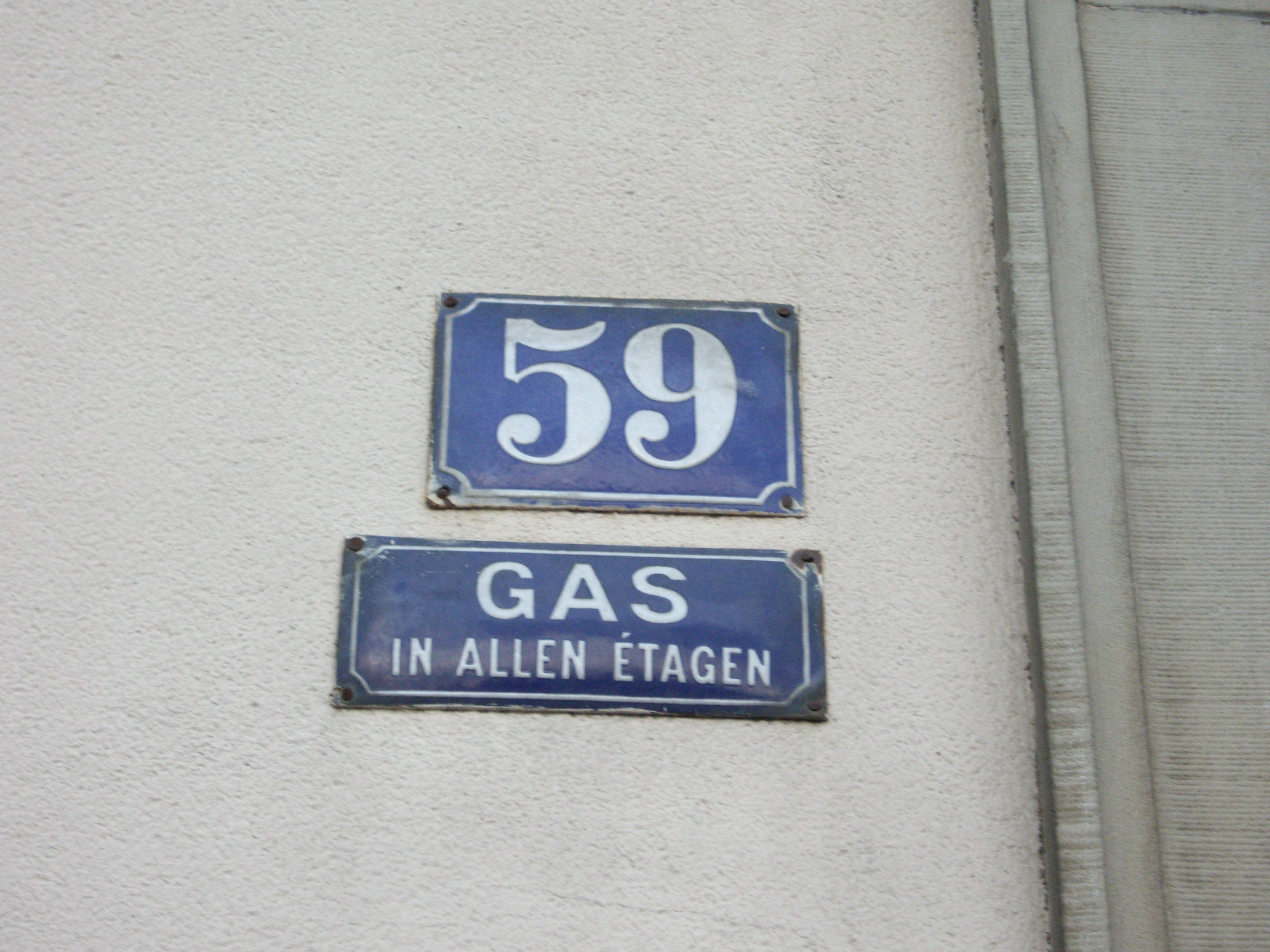 German enamel plate from Strasbourg (France) indicating that domestic gas is available in all the appartments of the building